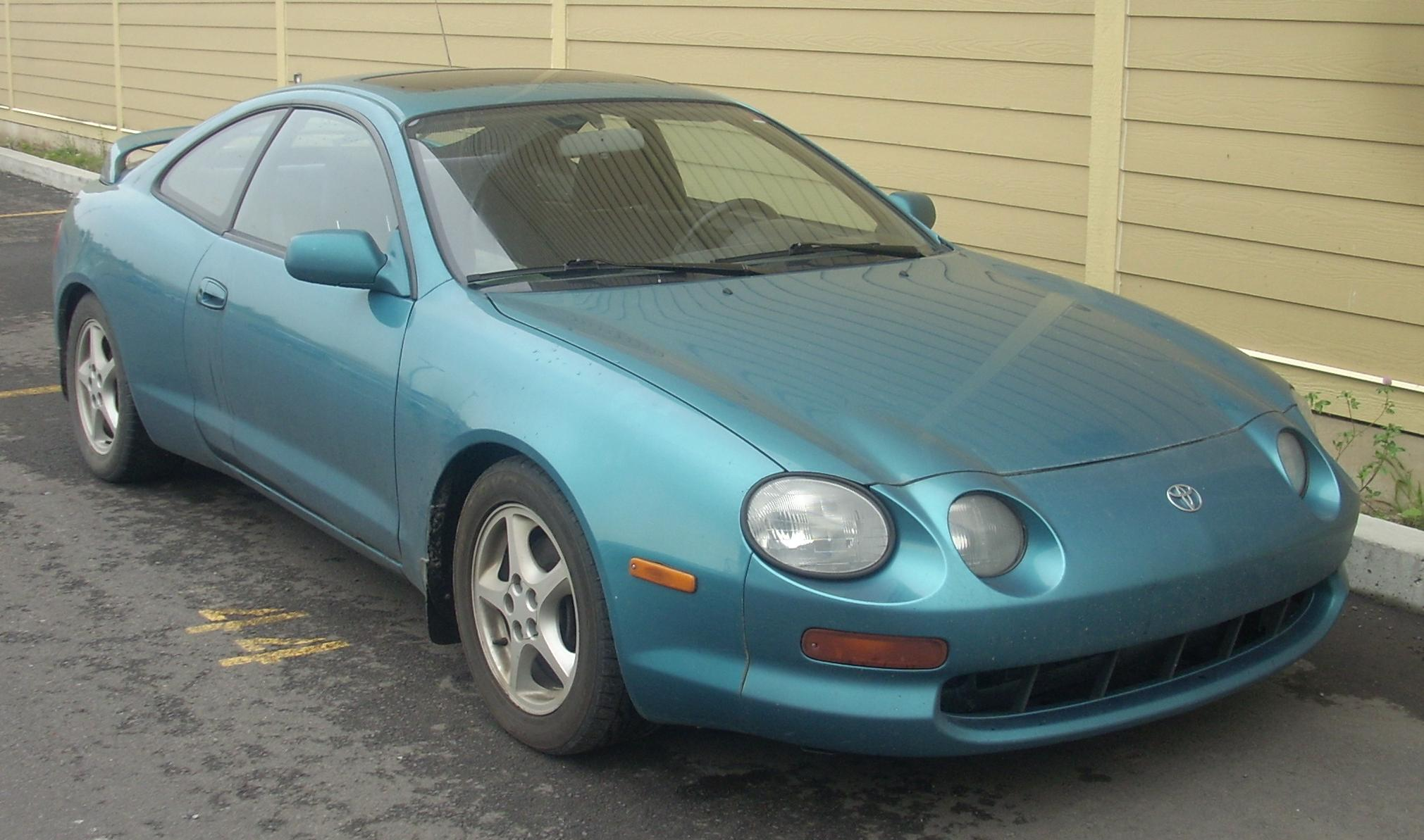 Pre-facelift Toyota Celica GT-S Liftback (ST204L-BLMGKK) shown in Sea Spray Pearl (colour code 753), photographed in Vaudreuil-Dorion, Quebec, Canada.